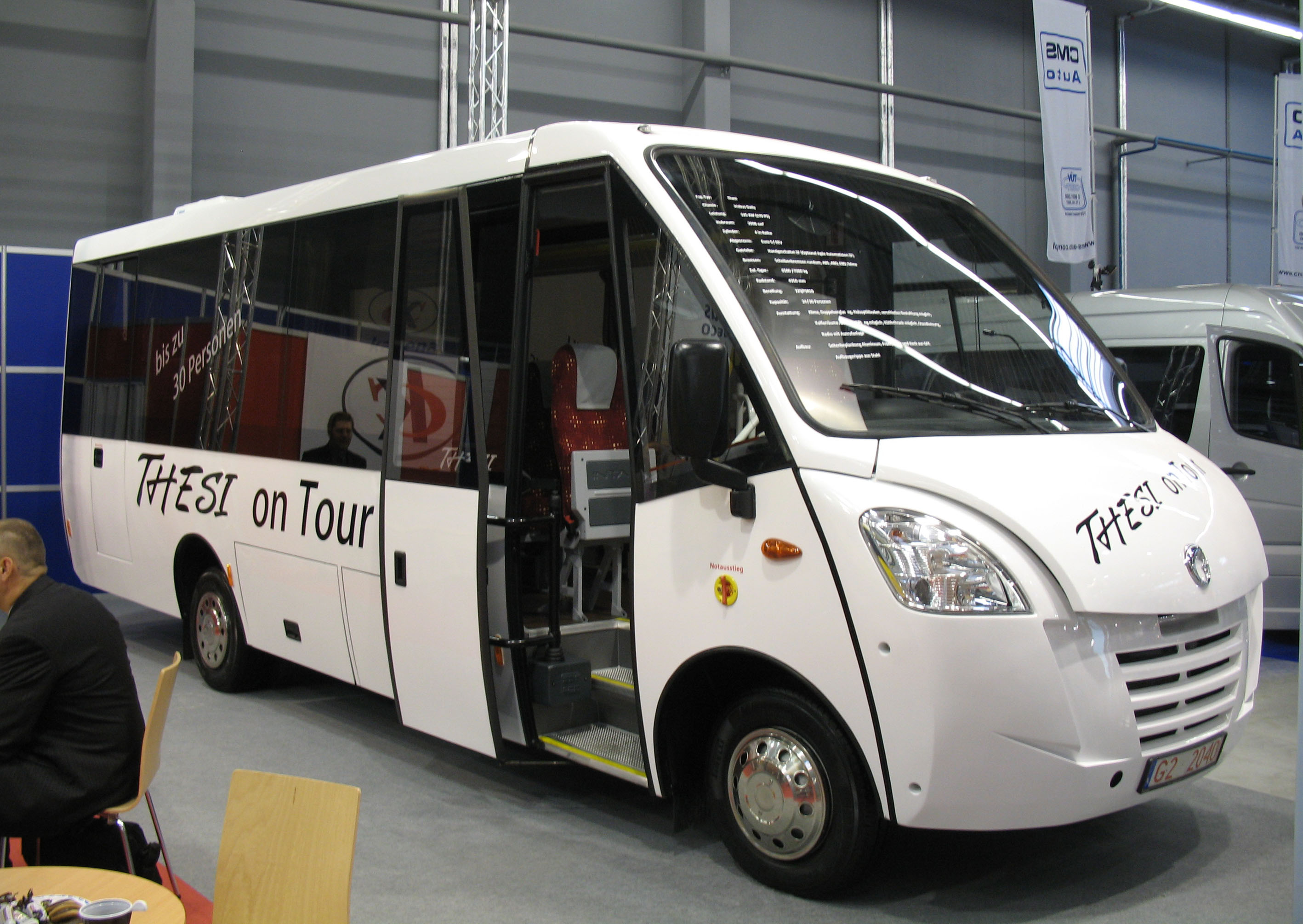 Irisbus Thesi Intercity bus (reg. G2 2040, built by Kapena) in Kielce, Poland. Built 2011, Haller GmbH & Co. KG from Gersthofen in Germany operator. Transexpo 2011.